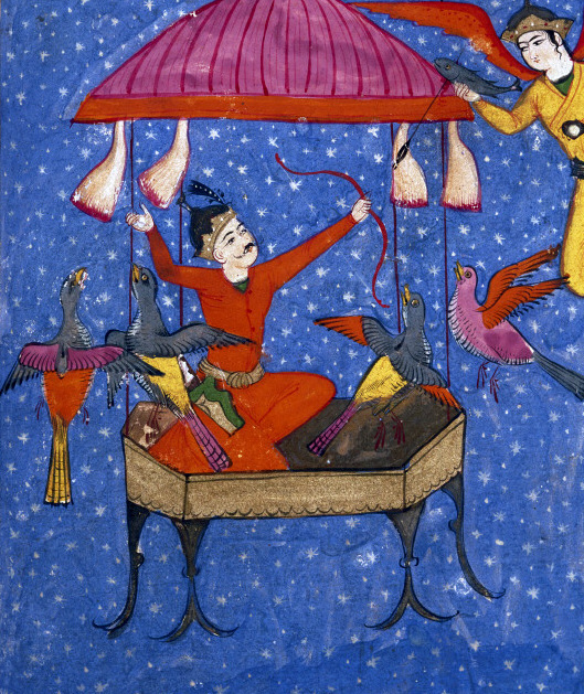 illumination from a Shahnameh manuscript